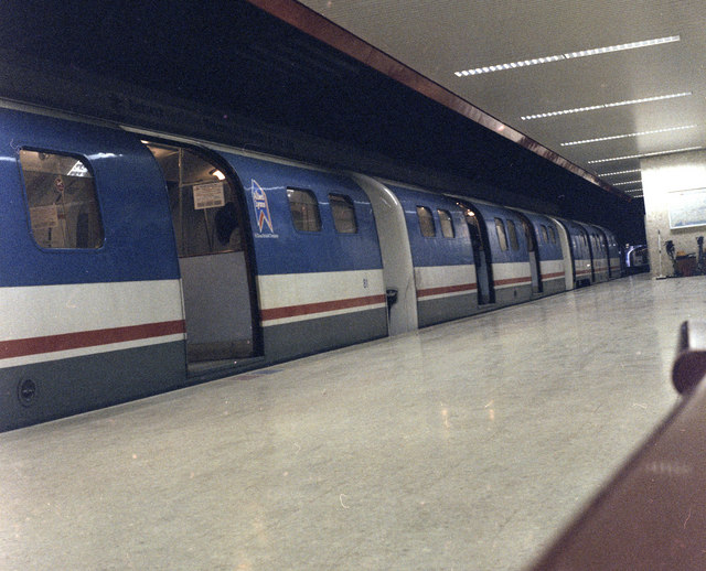 Waterloo & City railway Frequently used but seldom photographed is London's Waterloo and City railway, joining Waterloo to Bank, with no intermediate stations. It has only recently come within Transport for London's ambit, so as seen here in 1987 it was still owned by British Rail, who applied their Network South East livery to the cars.